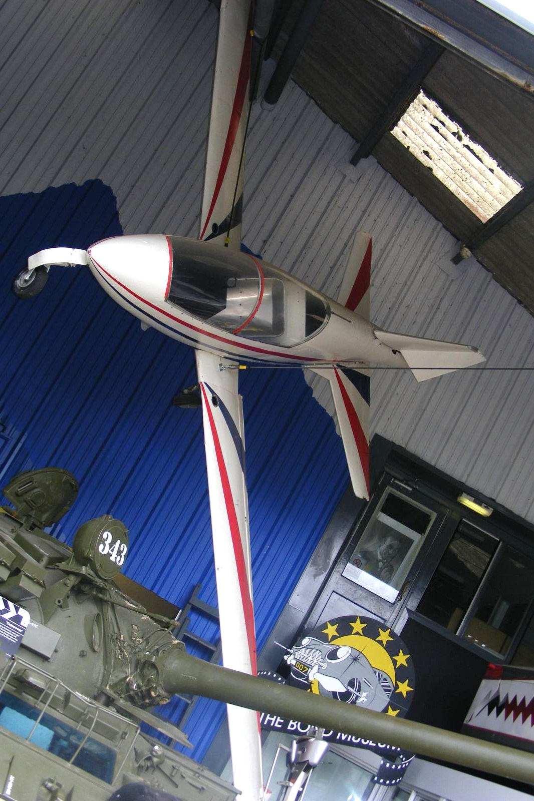 Acrostar Bede Jet, the small plane with wings that fold up, that figured in the pretitle sequence in "Octopussy".